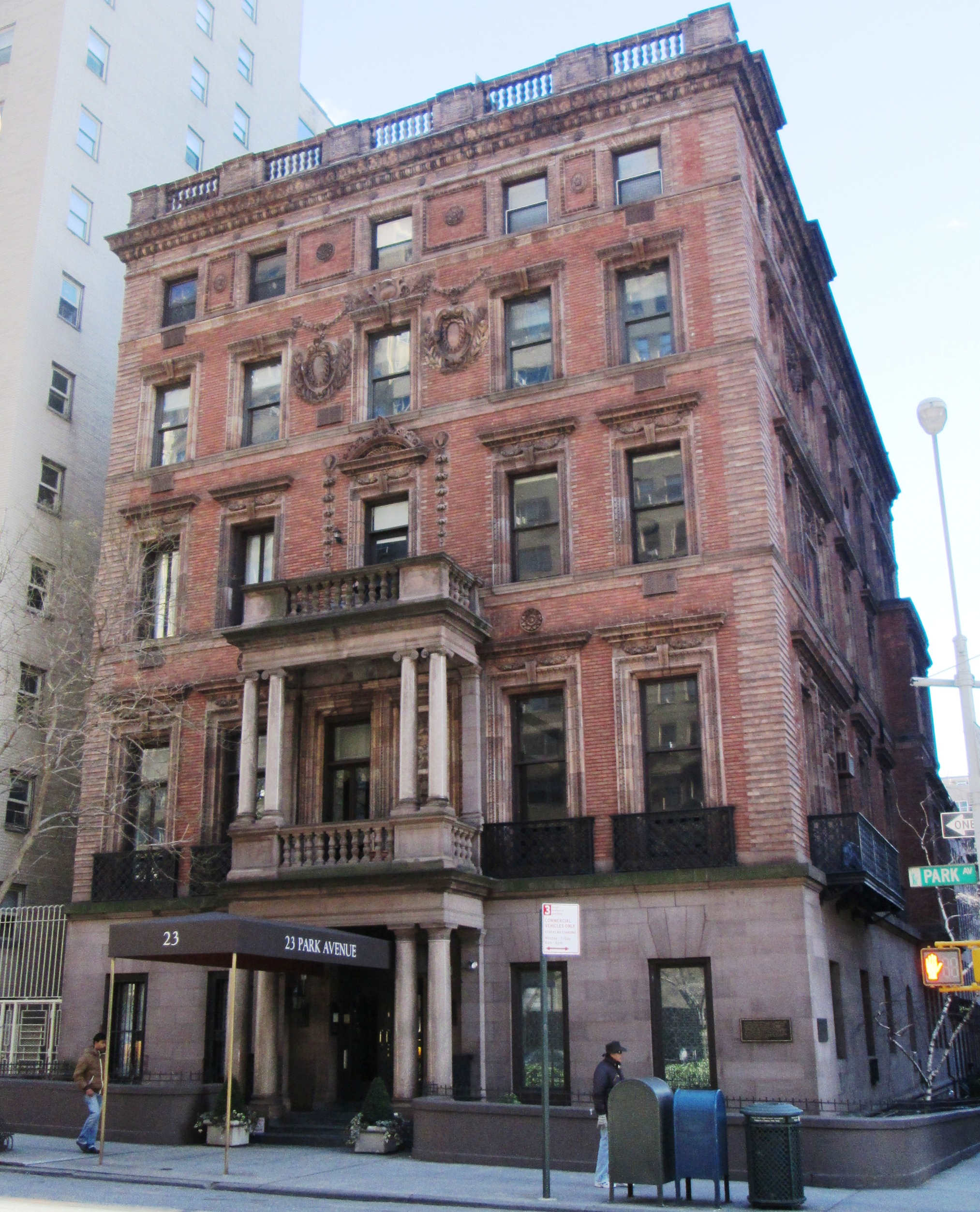 23 Park Avenue on the corner of East 35th Street in the Murray Hill neighborhood of Manhattan, New York City was built in 1888-92 and was designed in the Italian Renaissance revival style by McKim, Mead & White, with Stanford White as the partner-in-charge. The town house was constructed as the residence of James Hampden Robb, a retired businessman and civic leader, and his wife Cornelia Van Rensselaer Robb. In 1923 it was bought by the Advertising Club to be its clubhouse, and was converted to apartments in 1977. The building was designated a NYC landmark in 1979. (Sources: Guide to NYC Landmarks (4th ed.) and AIA Guide to NYC (5th ed.))